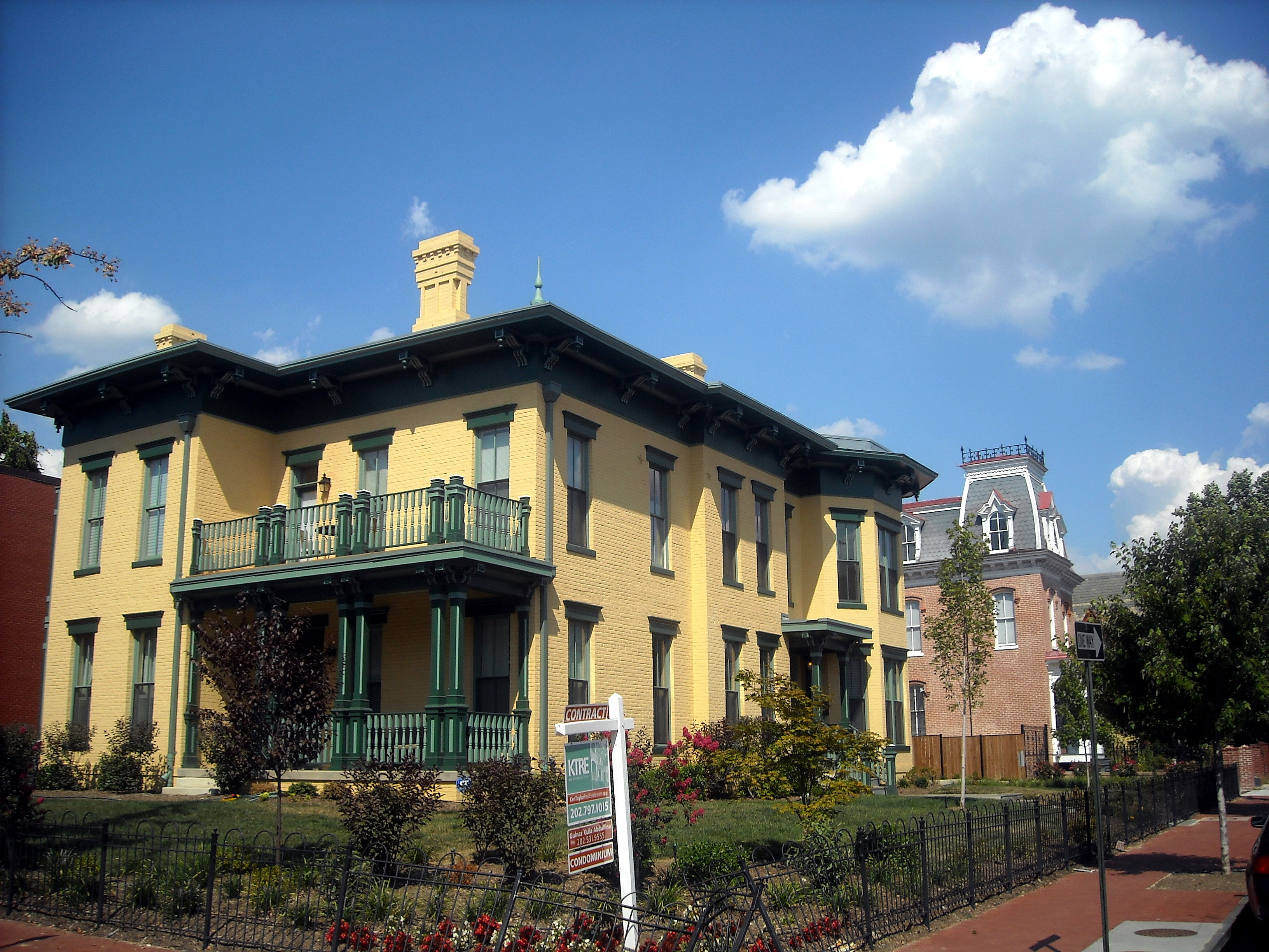 The Italianate-style, eleven-unit Juniper House condominium, (foreground) located at 531 T Street, N.W., in the LeDroit Park neighborhood of Washington, D.C. A Second Empire-style house, located at 525 T Street, N.W., is visible in the background. Built in 1877 (531 T Street) and 1873 (525 T Street) to the designs of architect James H. McGill, the T Street (historically known as Maple Avenue) buildings are designated as contributing properties to the LeDroit Park Historic District, listed on the National Register of Historic Places in 1974. The restored buildings are two of the fifty McGill-designed homes (out of the sixty-four originally built) remaining in the historic district. Previous occupants of 531 T Street, N.W., (also known as 1901 6th Street, N.W.; historically known as 1901 Juniper Street, N.W.) include: Stanley Finch, the first director of the Bureau of Investigation (now known as the FBI); and Morning Star Baptist Church (est. 1907) from 1962 until 2004.